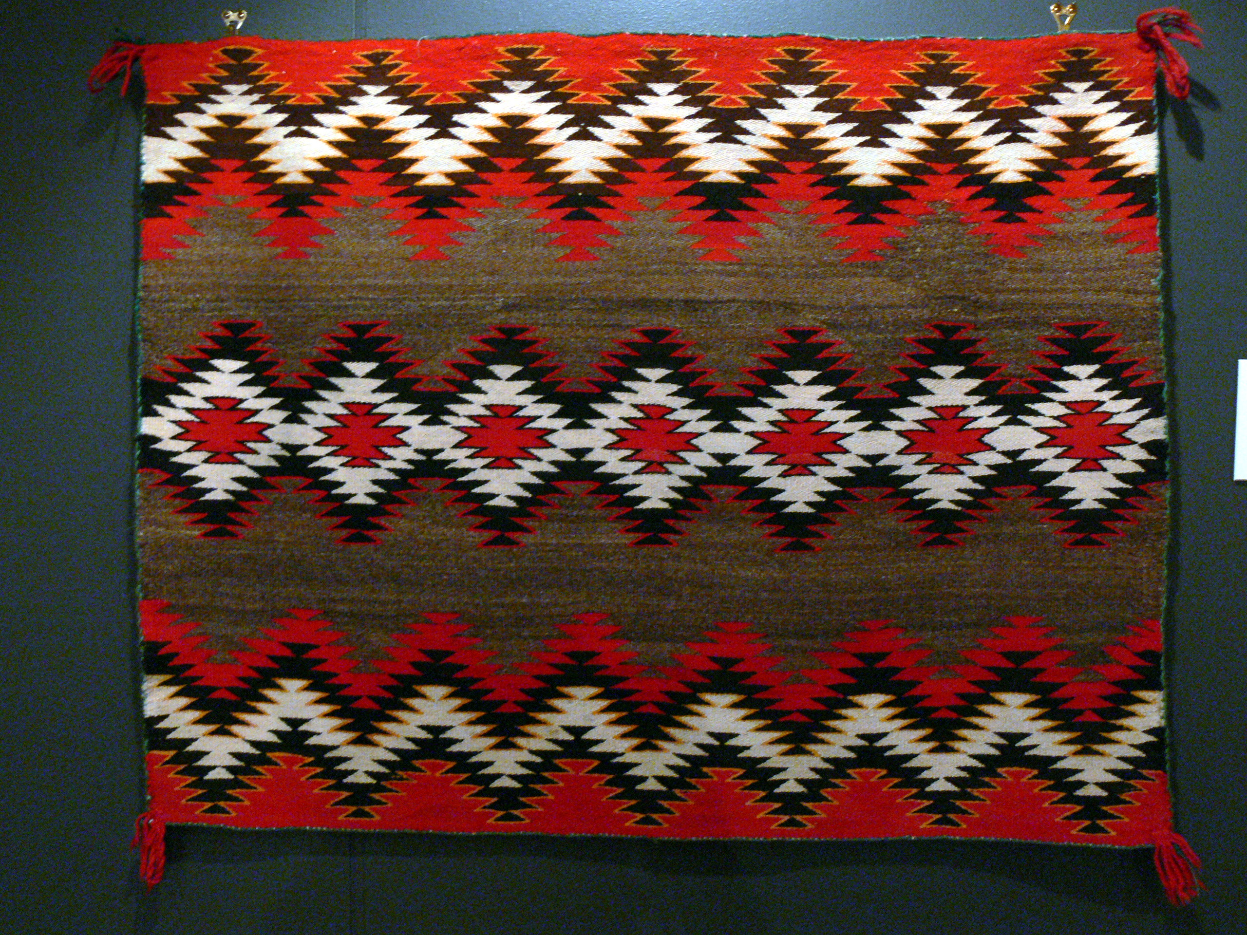 Philbrook Museum in Tulsa, Oklahoma. Navajo single saddle blanket ( 1880s ).